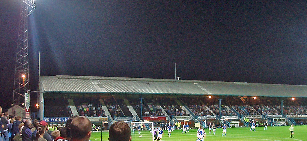 Main Stand, Recreation Ground. Image cropped from original at flickr.